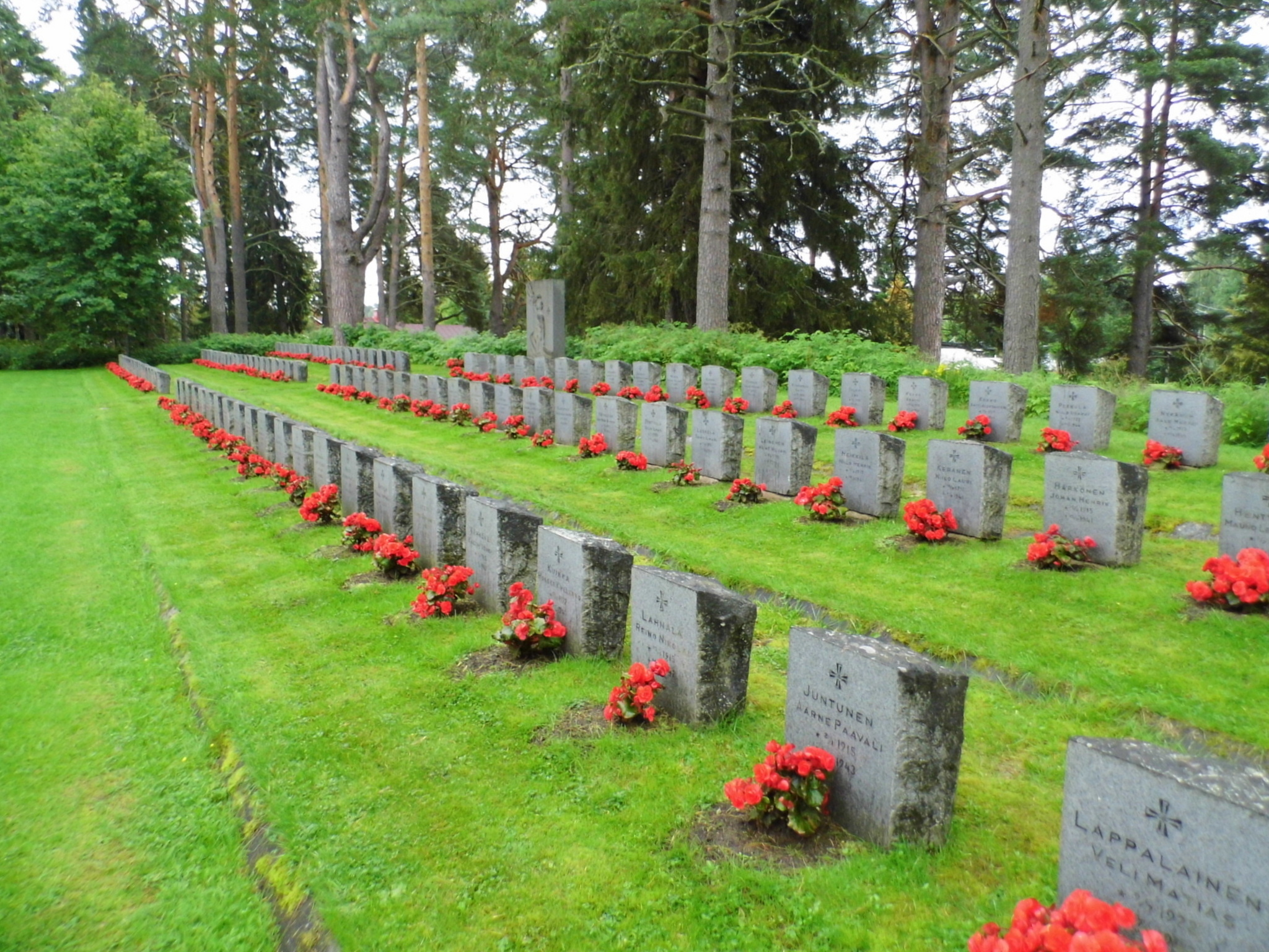 Military cemetary at church in Muhos, Finland